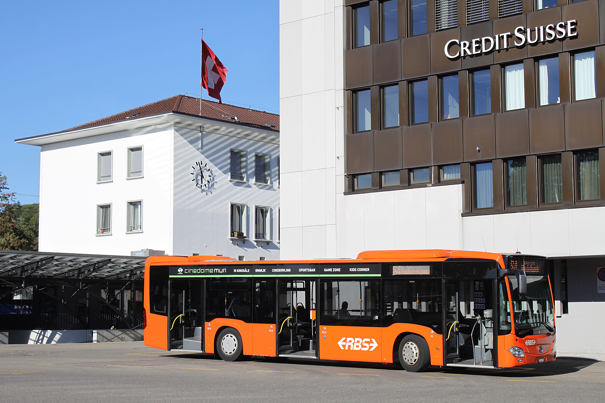 RBS Citar as rail replacement bus for the S4 to Hindelbank at Burgdorf railway station.